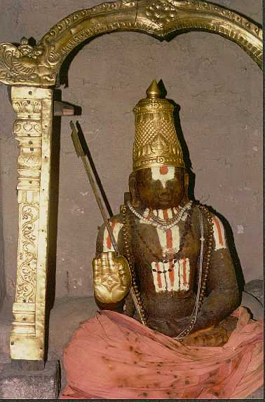 Bhagvad Ramanujacharya